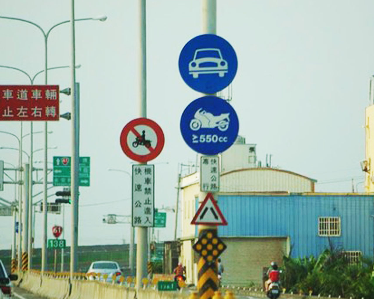 Road sign in Republic of China(Taiwan) - Motorcycles Prohibited sign, Motor vehicles(More then Four wheeled) only sign and Motorcycles with Engine Displacements at least 550cc or more only sign